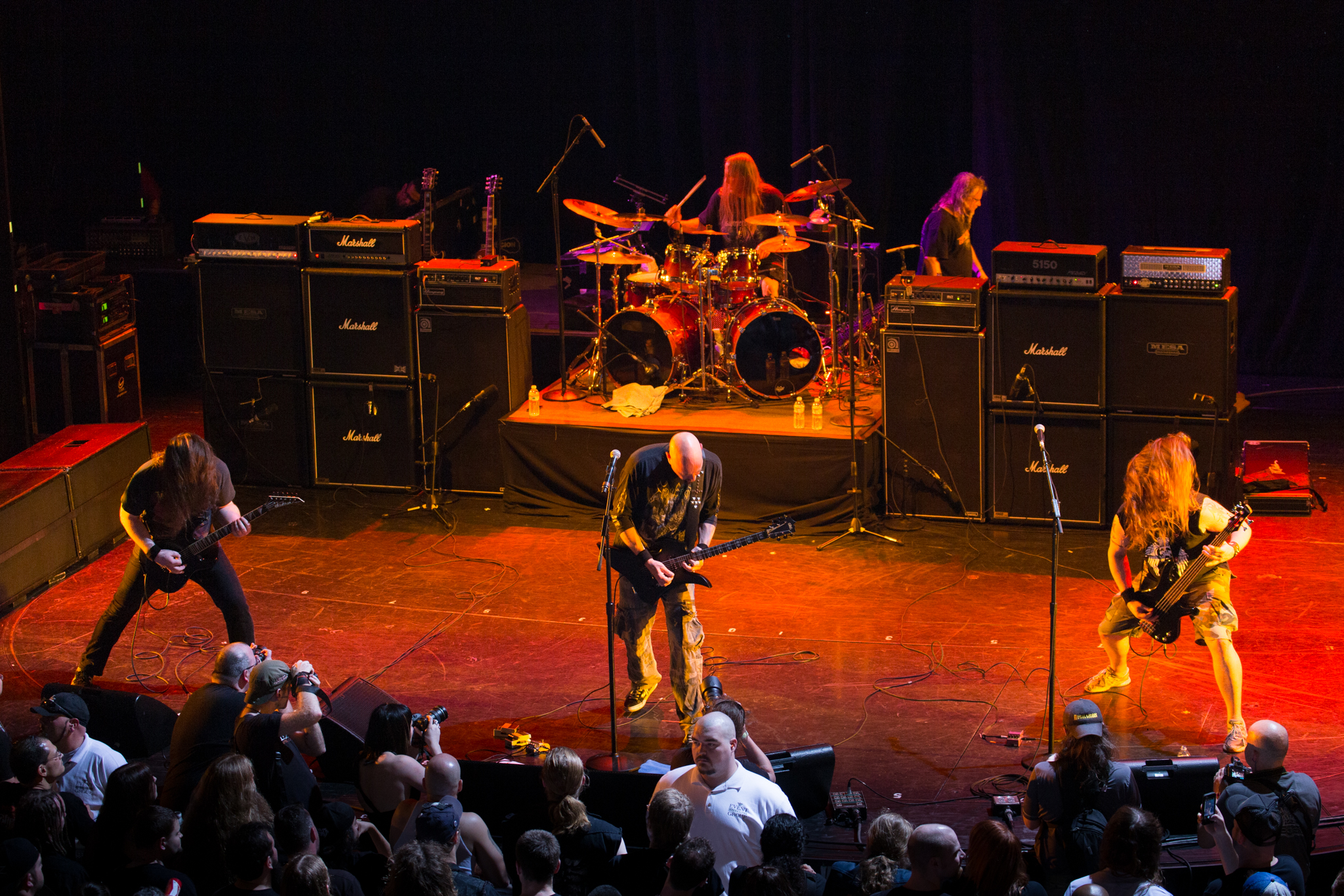 God Dethroned performing at 70.000 tons of metal, january 2015